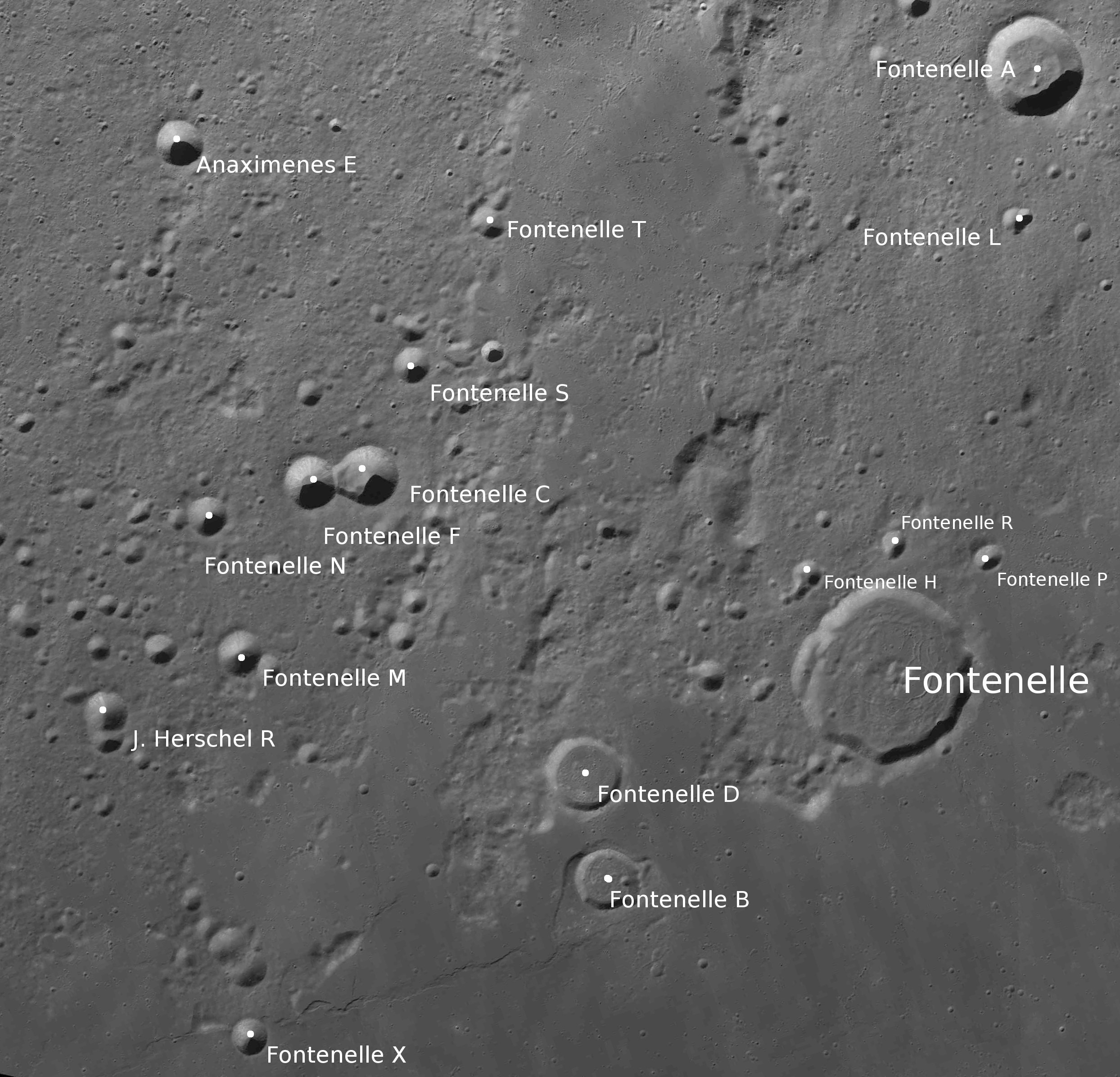 Moon crater Fontenelle with satellite features (north at top; detail of LRO - WAC north pole mosaic)